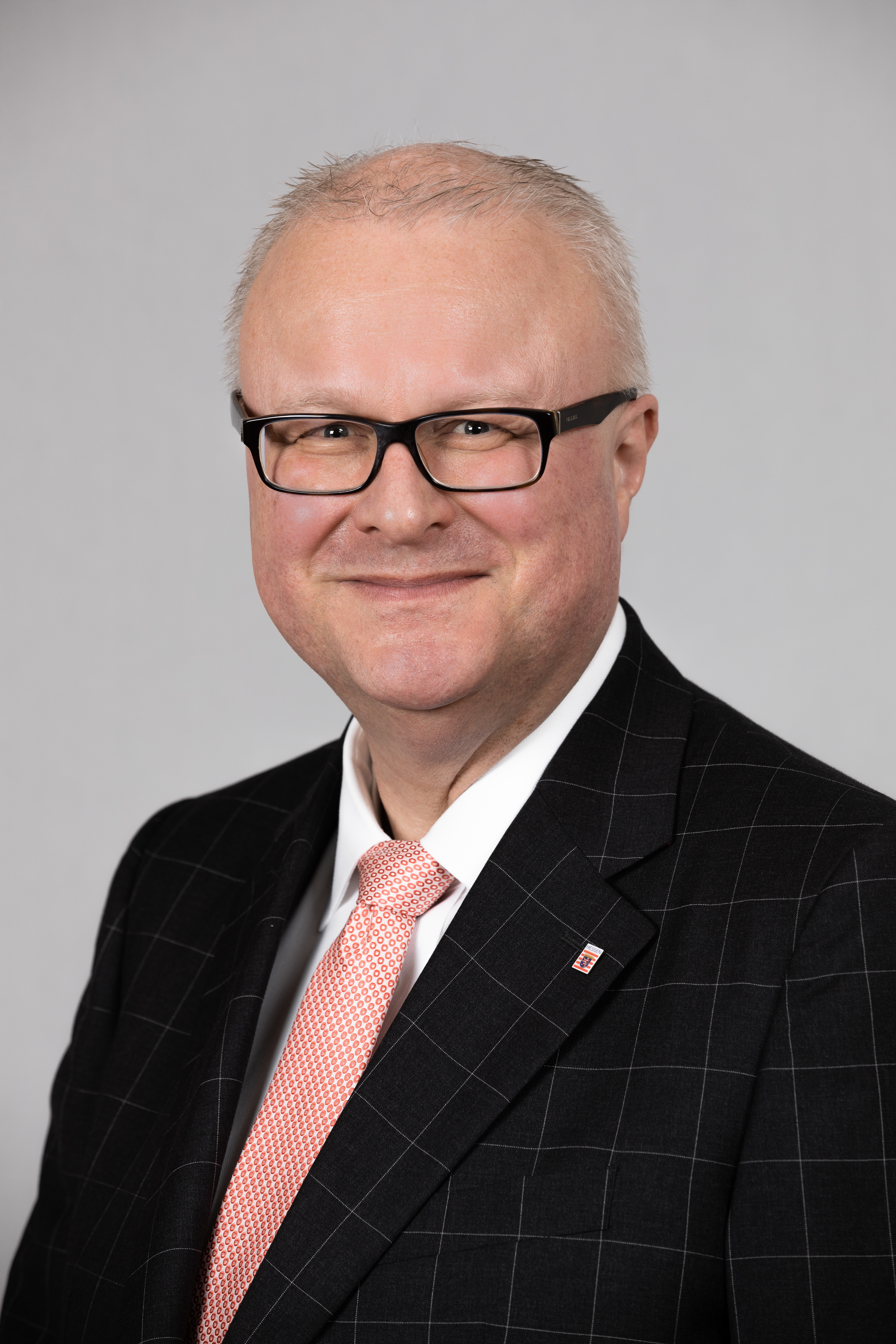 Thomas Schäfer, Landtag of Hesse, Wiesbaden, April 3rd, 2019